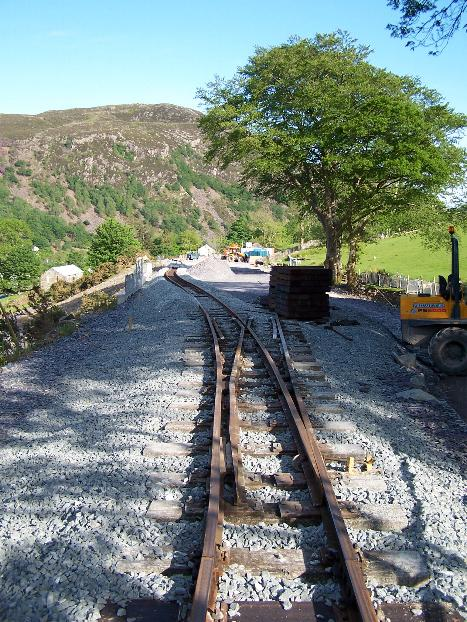 This southerly view (20/5/07) shows the northern end of Beddgelert Station taking shape. B.W.Hughes